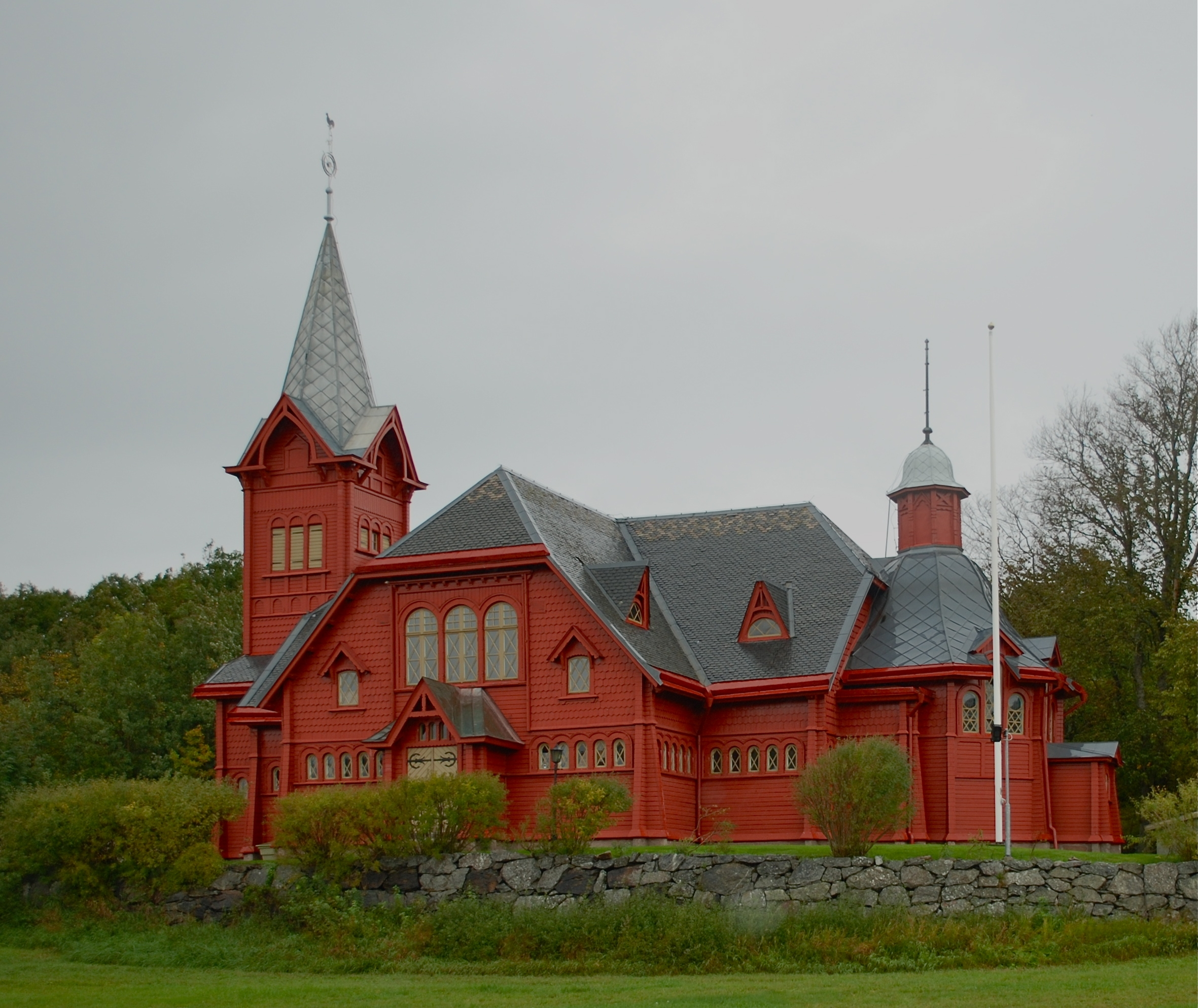 Hälleviksstrand kyrka